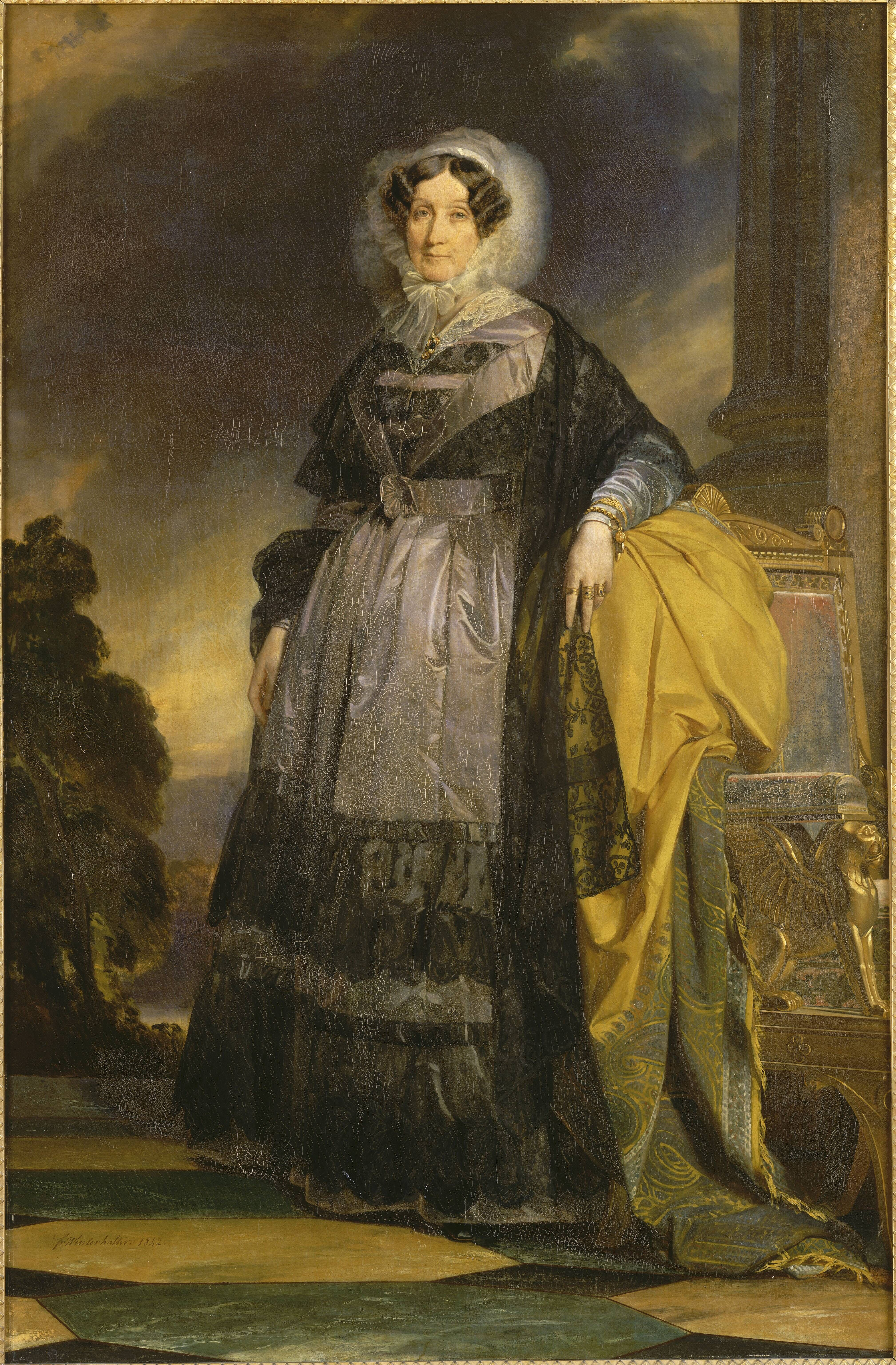 Princess Adélaïde of Orléans